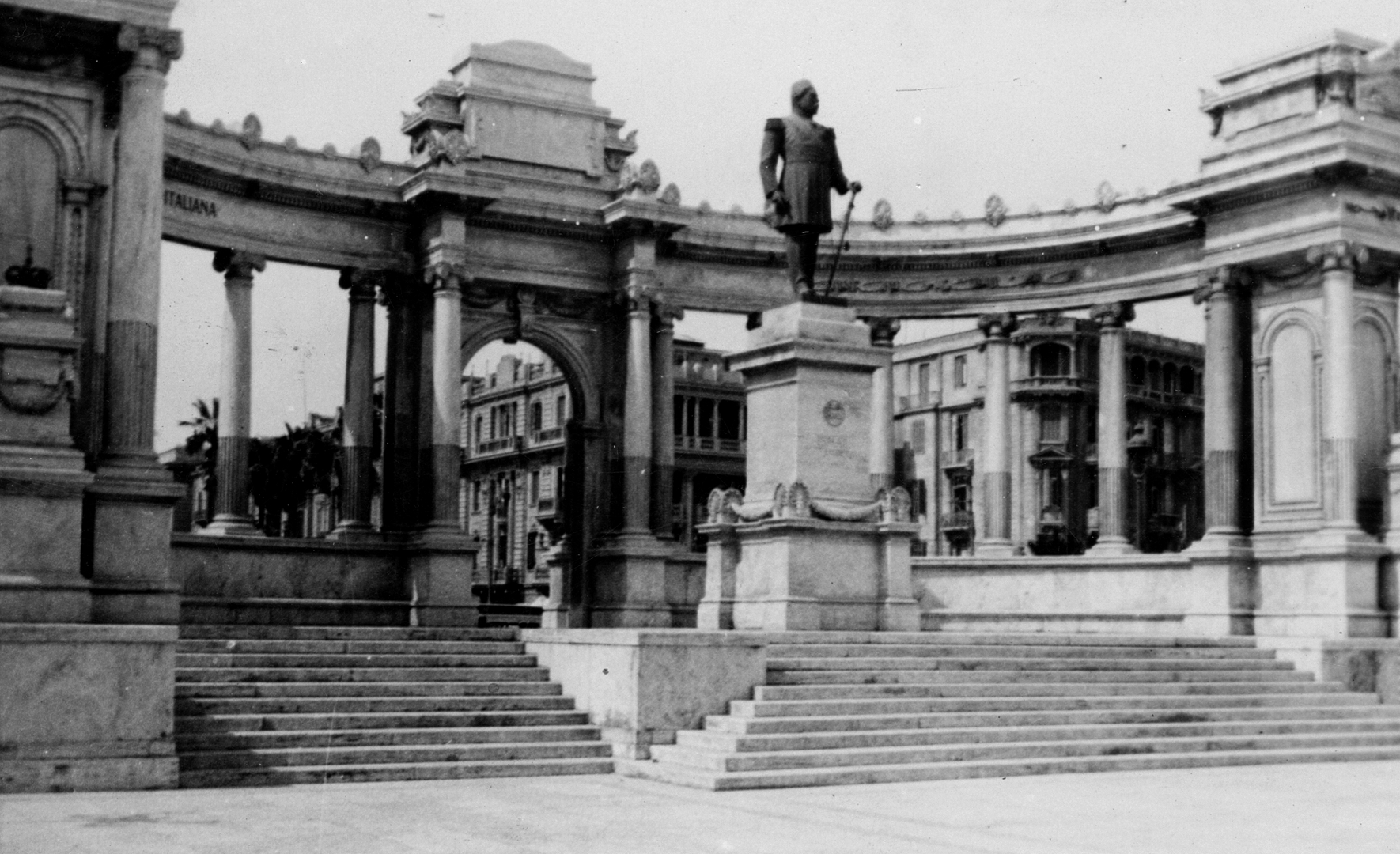 034 1940 - Khedive Ismail Statue in Alexandria, Egypt (by Tom Beazley)